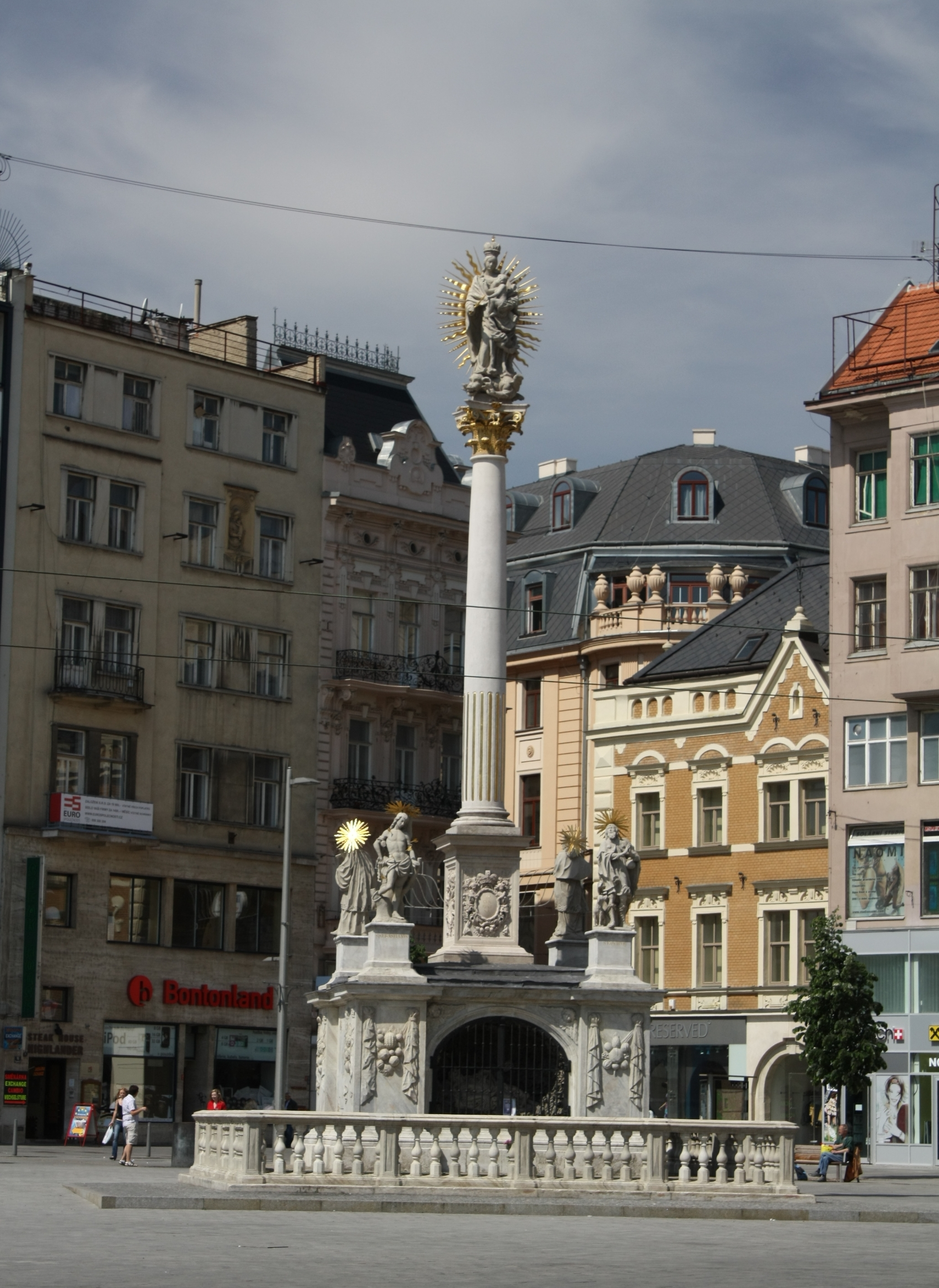 Freedom Square in Brno, Czech Republic - plague pillar